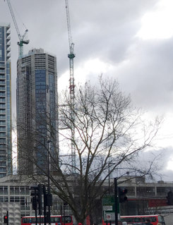 View of the Highpoint building under construction in Elephant and Castle.